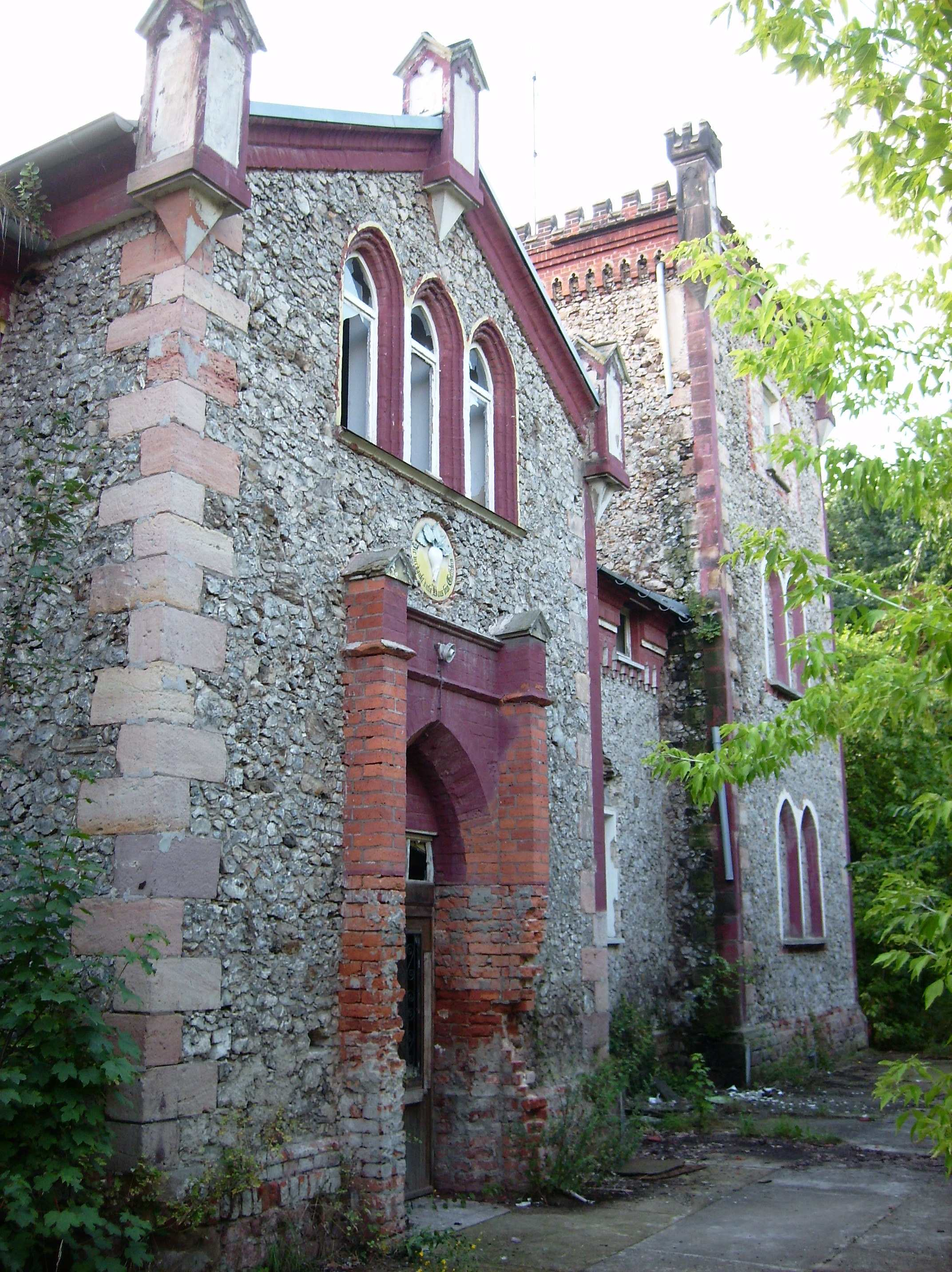 Knauer's Villa (so-called Gröbers Castle), Kabelsketal, district of Saalekreis, Saxony-Anhalt